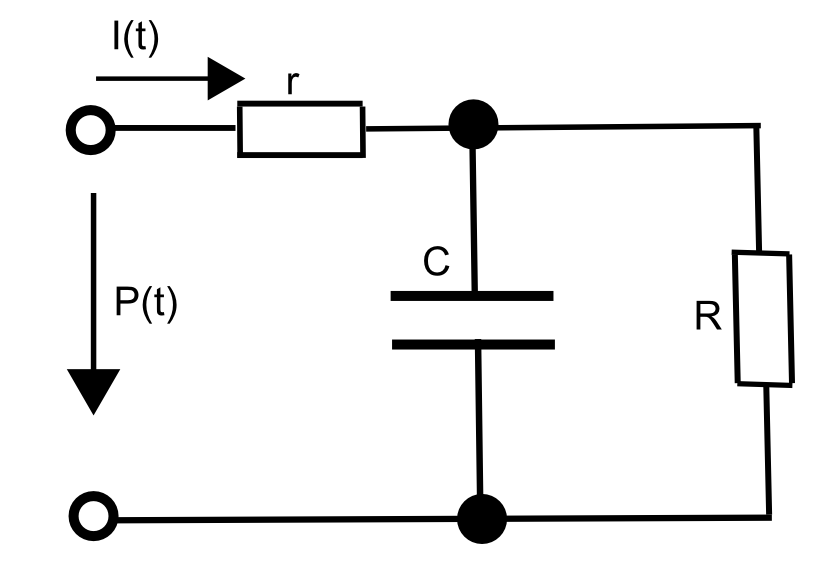 Windkessel model (3-elements)